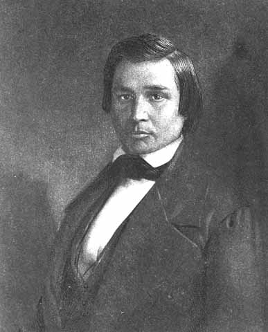 Chief George Copway of the Ojibway (Ojibway name: Kah-ge-ga-gah-bowh), 1850 Photograph Collection, Charcoal ca. 1850 Location no. E97.1K p2 Negative no. 13615